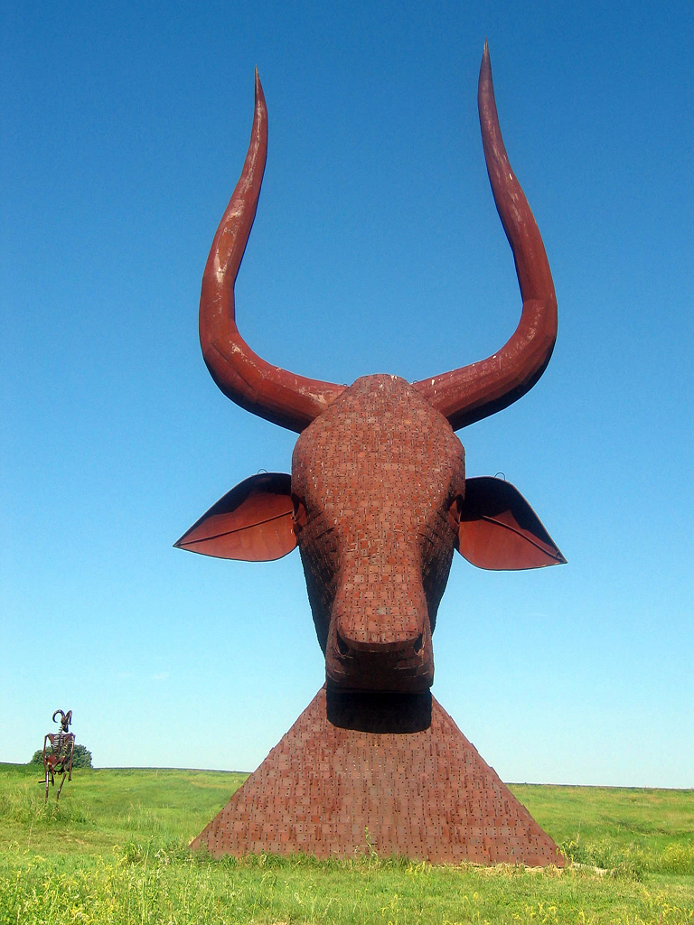 60 foot tall, 25 ton metal sculpture made out of welded railroad ties